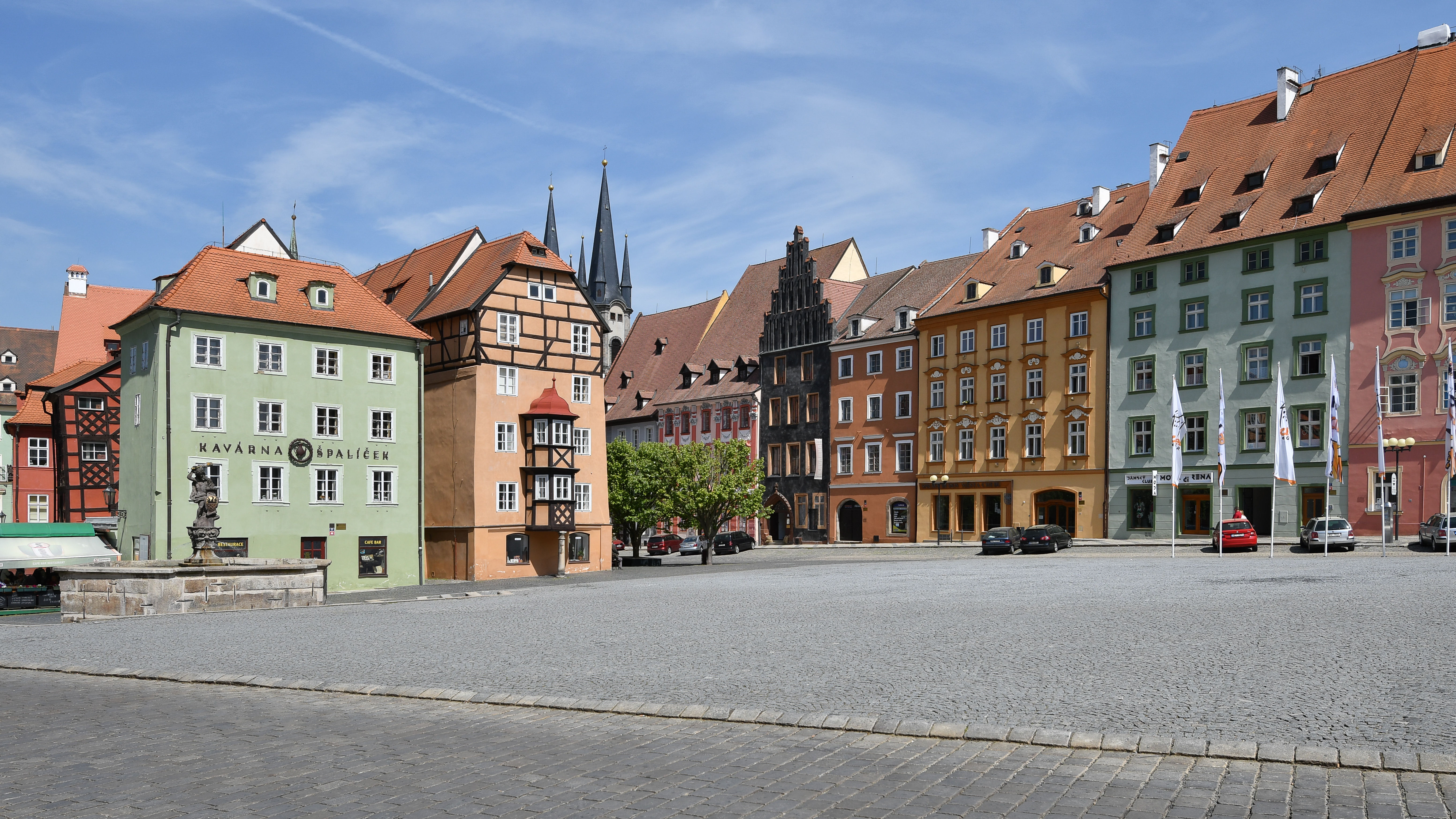 The Špalíček consists of two buildings on the square of king George of Podebrad, the market square of Cheb. This fantastical combination of eleven houses is divided by a narrow gap - the Kramářská. The ensemble developed from wooden market stalls to stone structures step by step between the 13th and 16th century. A third row was demolished in 1809 but the remaining two blocks have been restored in the 1960s.